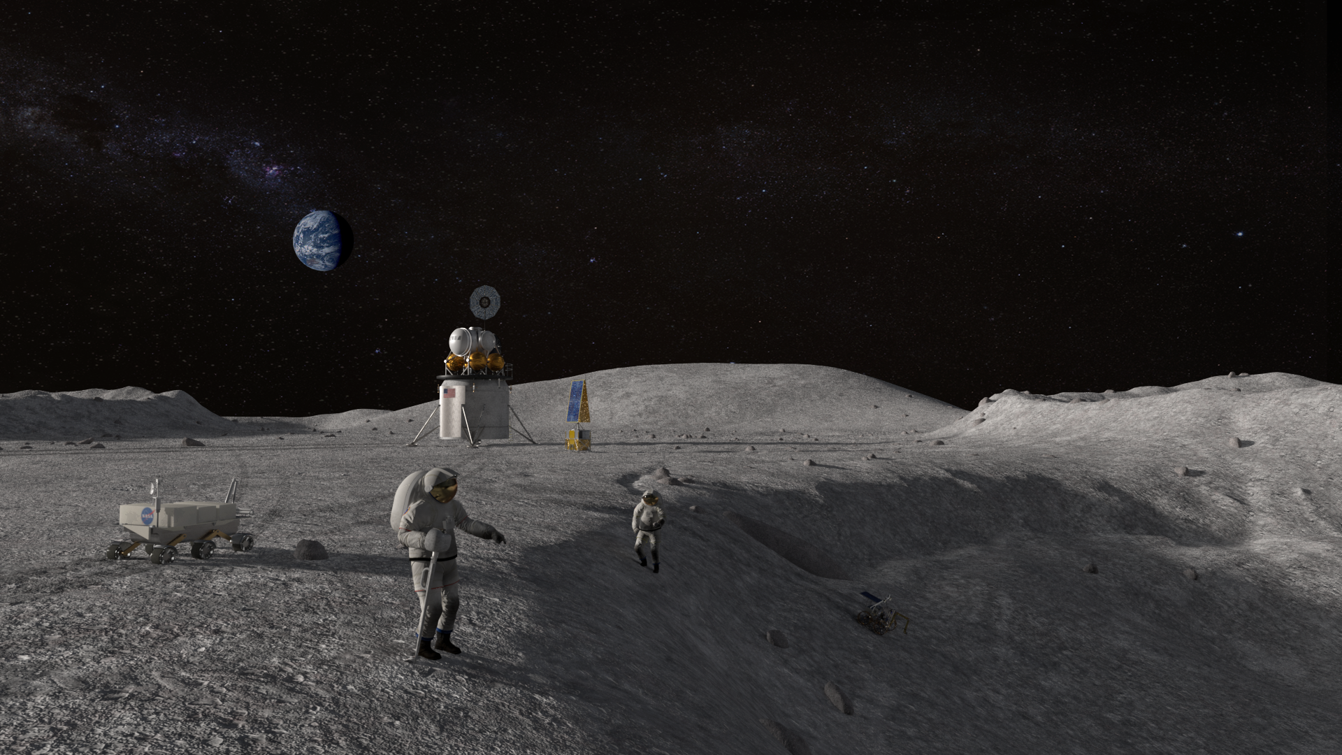 Artemis program astronauts lunar crater